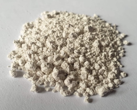 Silver chloride